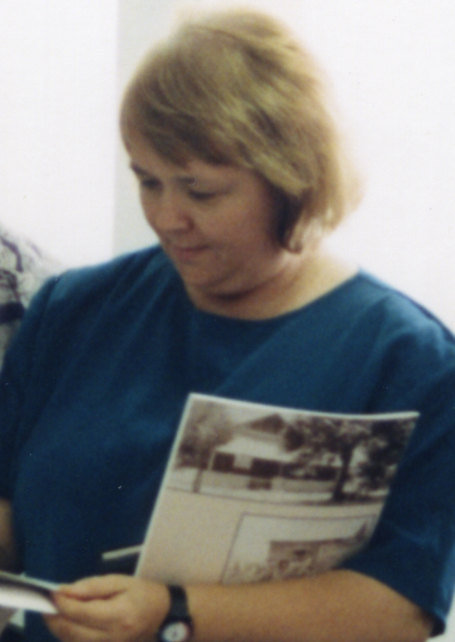 Barbara James at a book launch. PH0554-0010